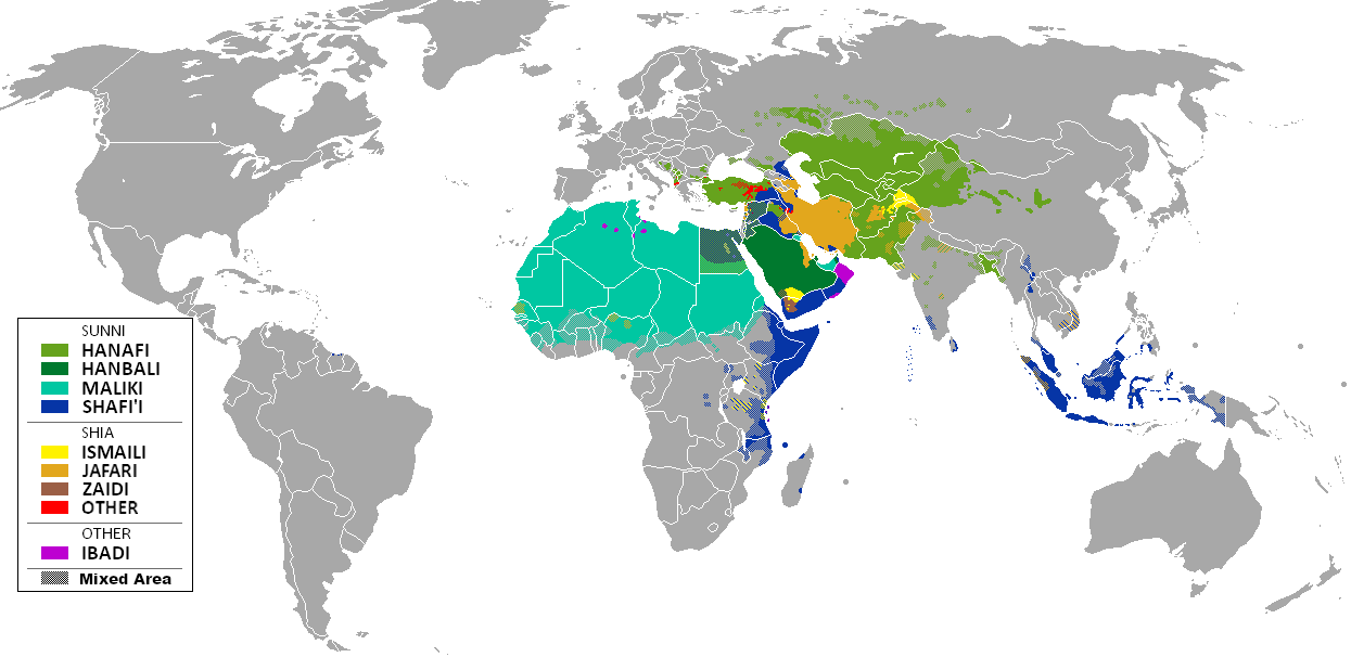 Derived from File:Madhhab_Map2.png (Madhhab)